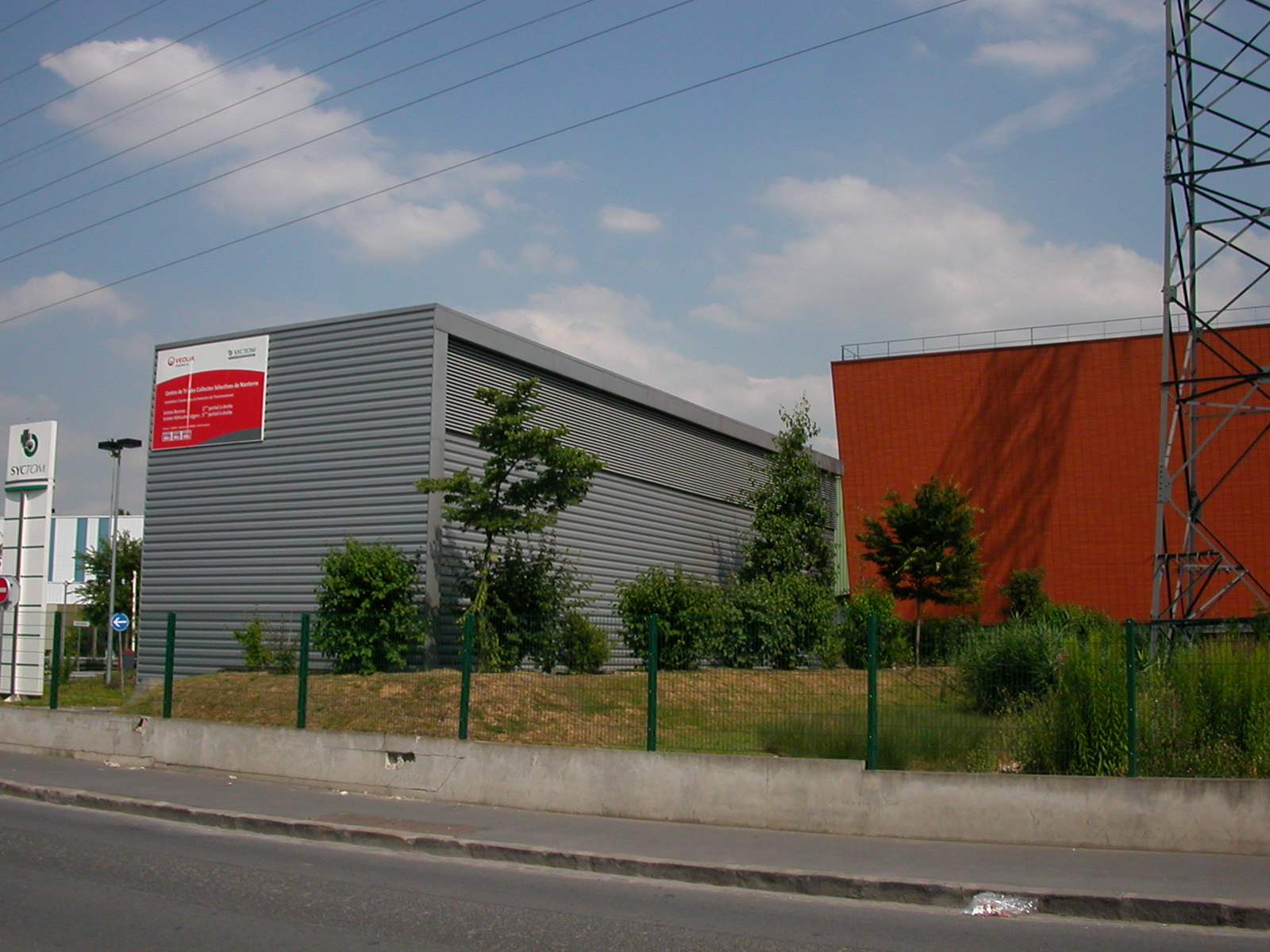 Recycling center in Nanterre